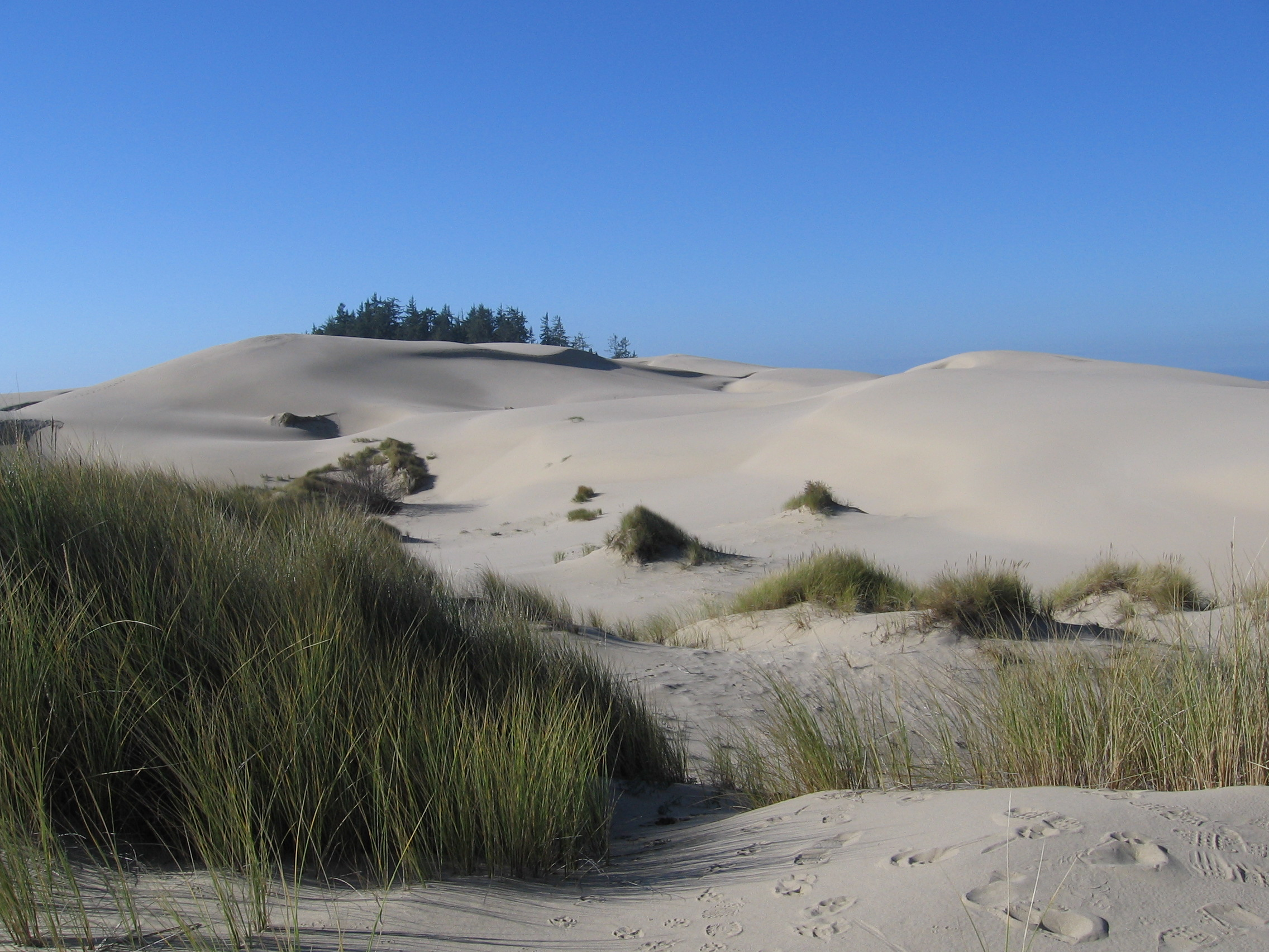 Sand dunes at the Oregon Dunes National Recreation Area, close to Reedsport